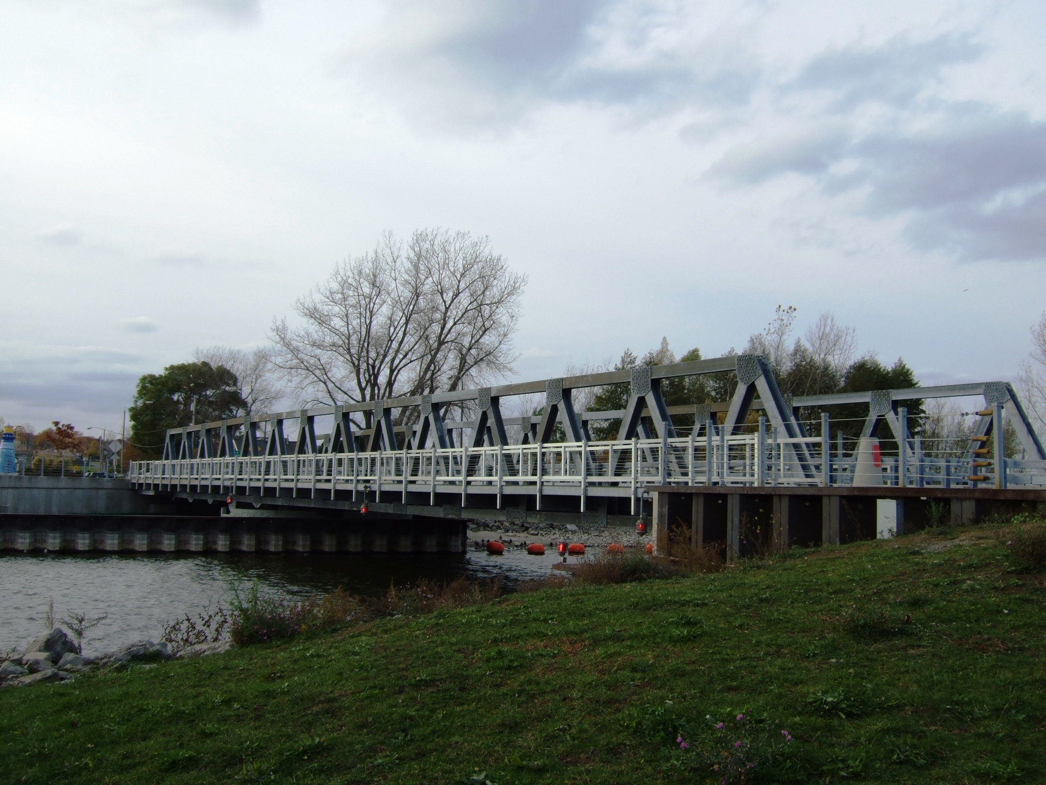 Irondequoit Bay Outlet Bridge in November 2007 taken from eastern side (Webster, New York) looking west northwest while the bridge is in the winter months closed position. The outlet connects Irondequoit Bay, left of picture, with Lake Ontario, right of picture.